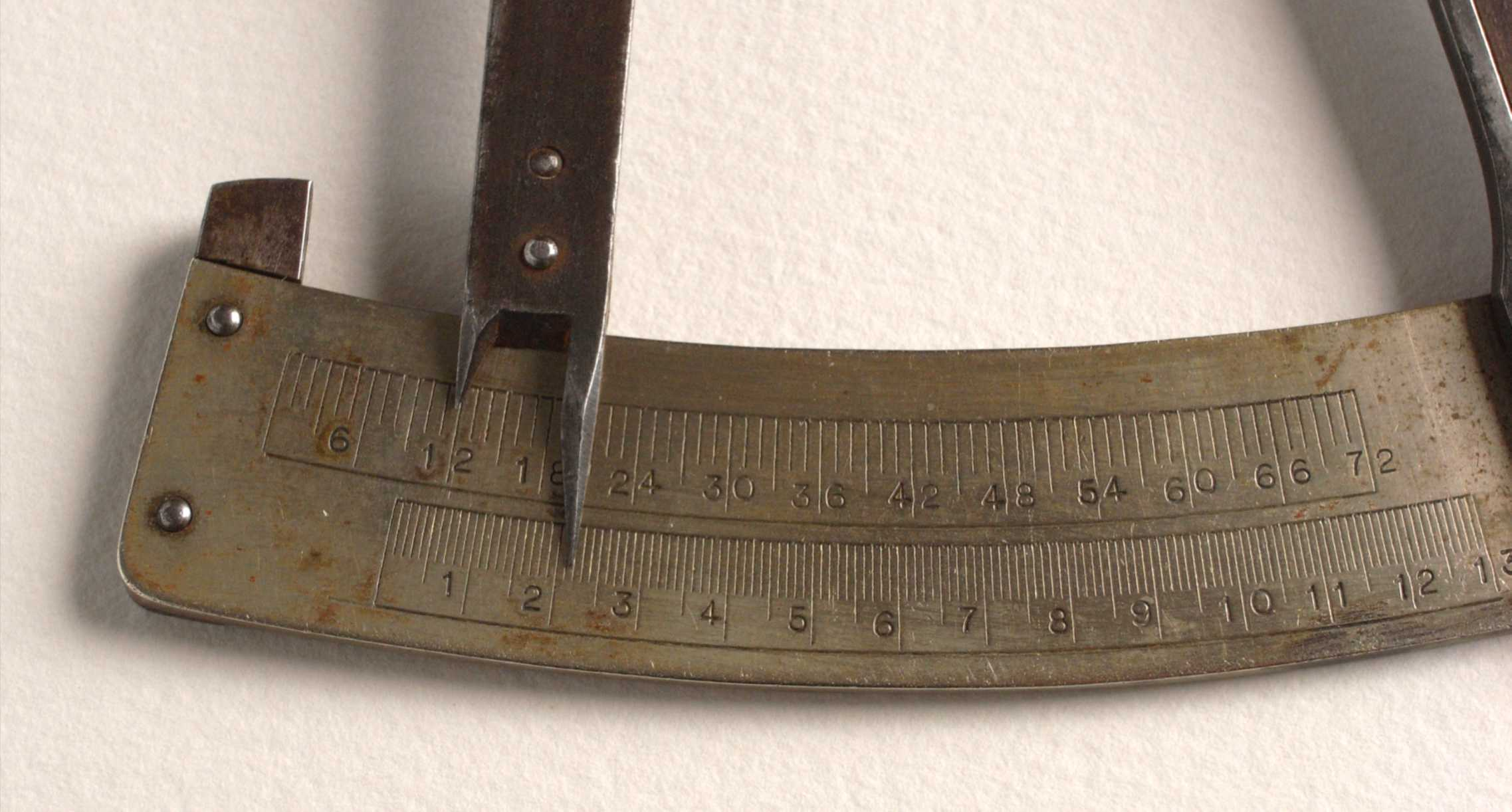 scale of dixieme gauge (millimetre and line)